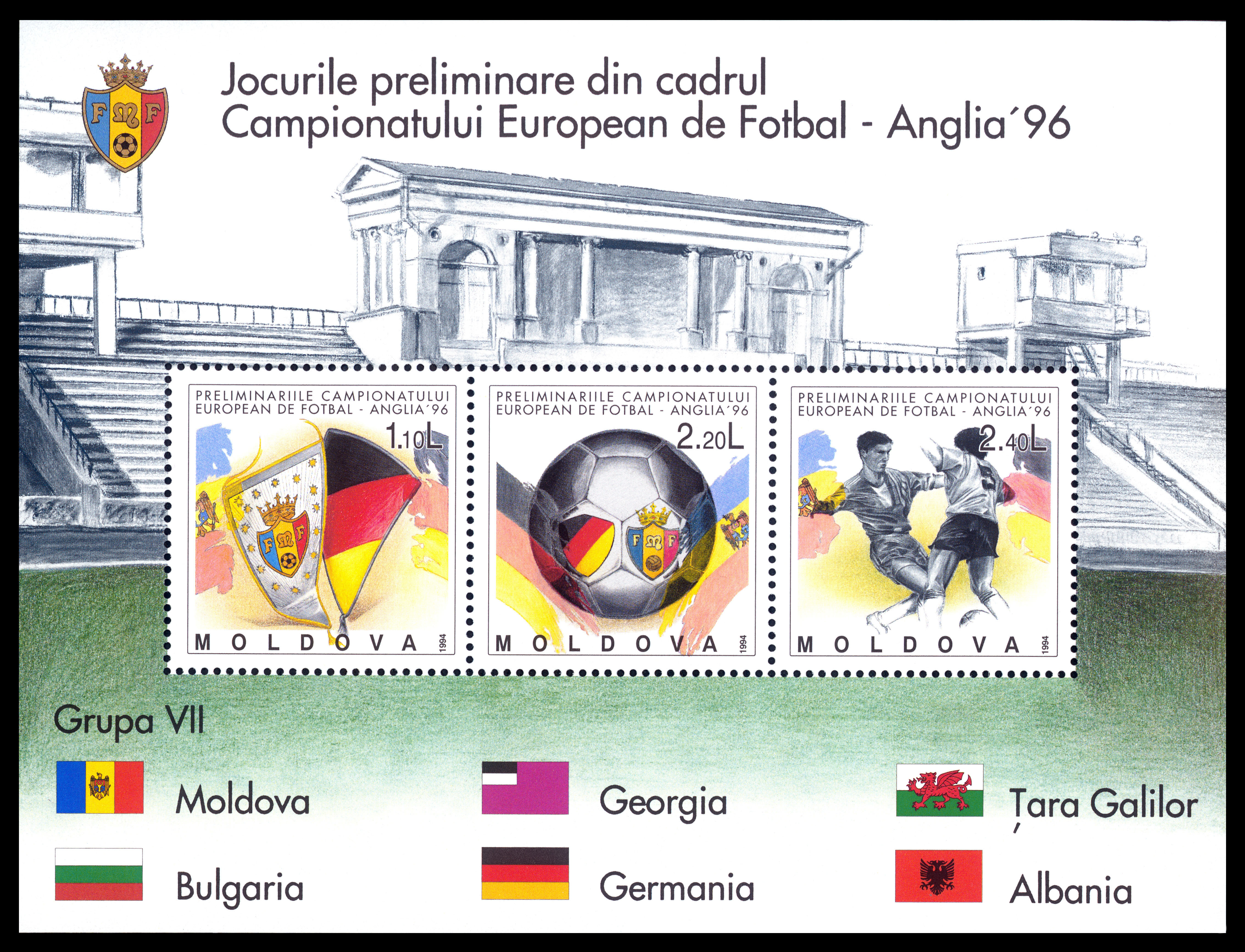 148 Pennants with the emblems of football federations of the Republic of Moldova and Germany. 149 A ball on the background of pennants with the emblems of football federations of the Republic of Moldova and Germany. 150 An episode of the game.